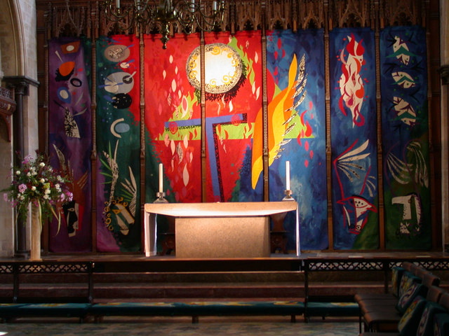 John Piper tapestry, Chichester Cathedral The design by Piper was woven in France in 1966. The central theme is the Holy Trinity; on the side panels appear the "four beasts full of eyes before and behind" (Rev. 4:6) traditionally regarded as symbolising the four evangelists.